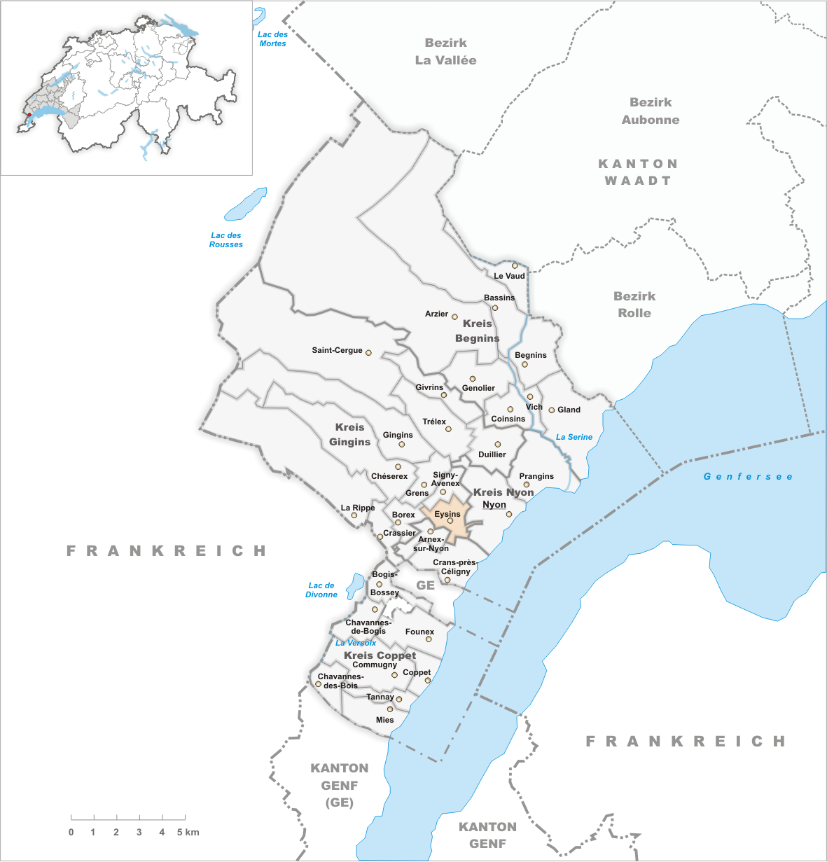 Municipality Eysins